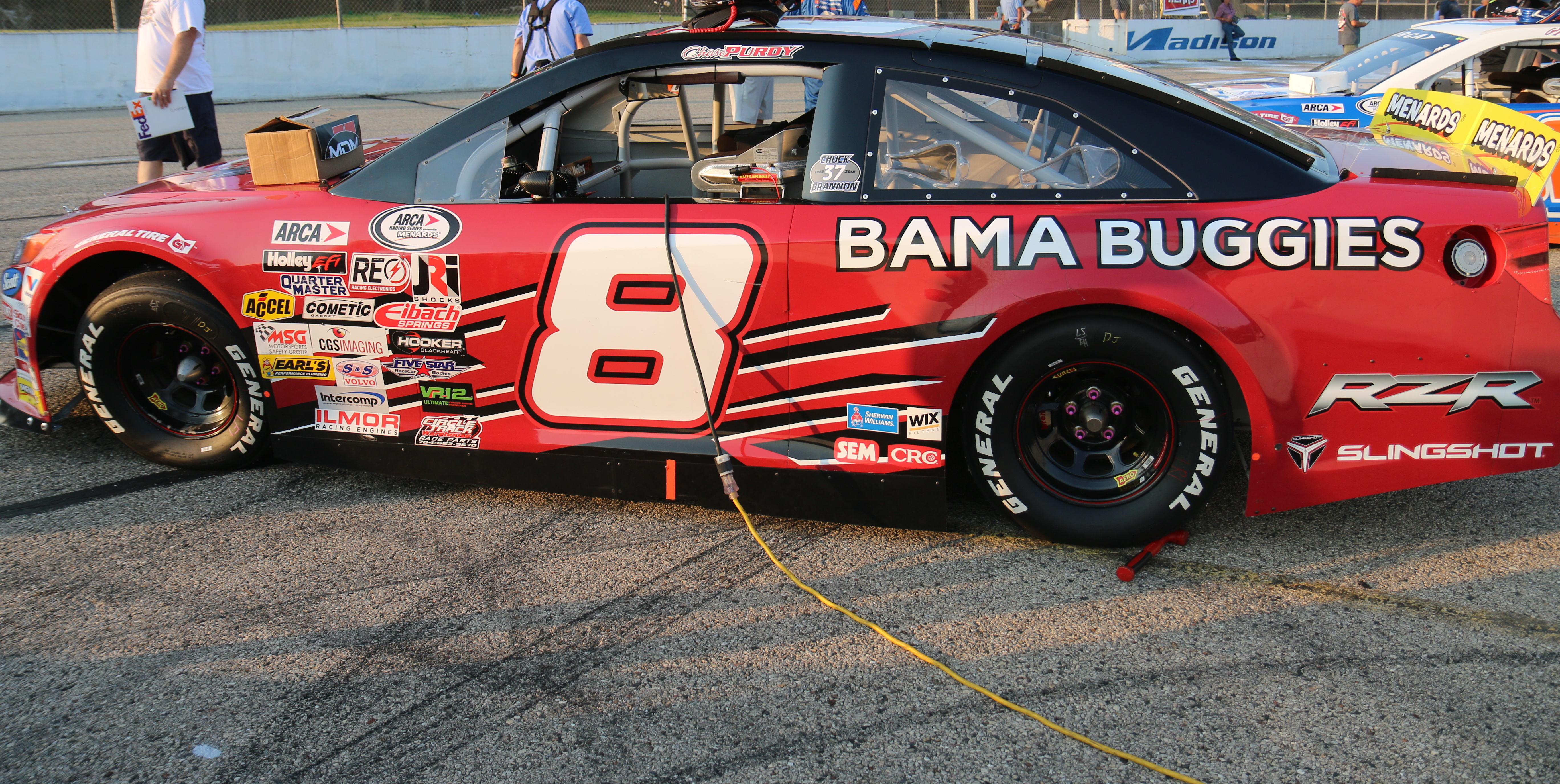 The #8 car of Chase Purdy on display at the 2018 ARCA race at Madison International Speedway.